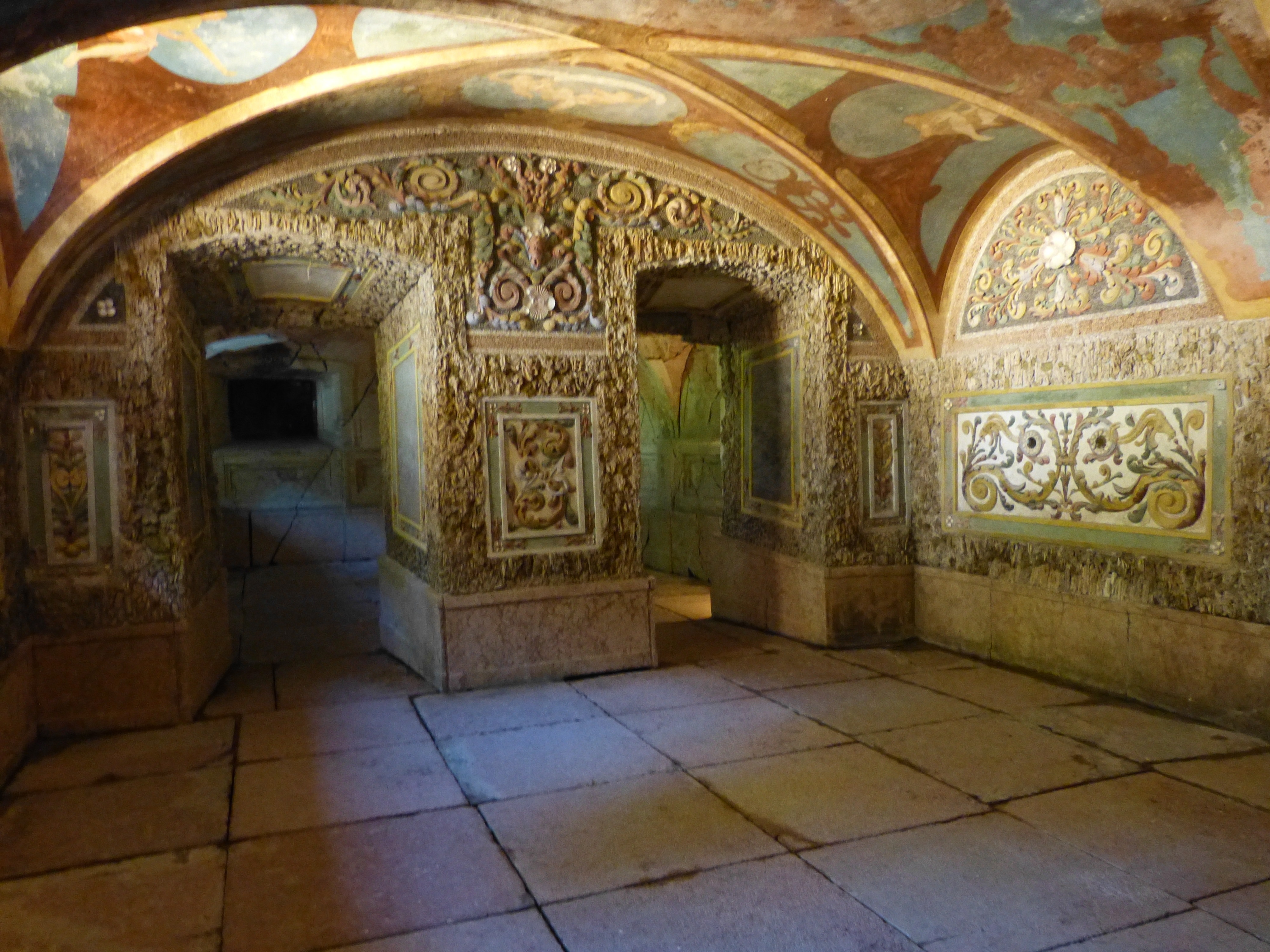 Salzburg ( Austria ). Hellbrunn palace gardens: Grotto of ruins ( 1613-15 )